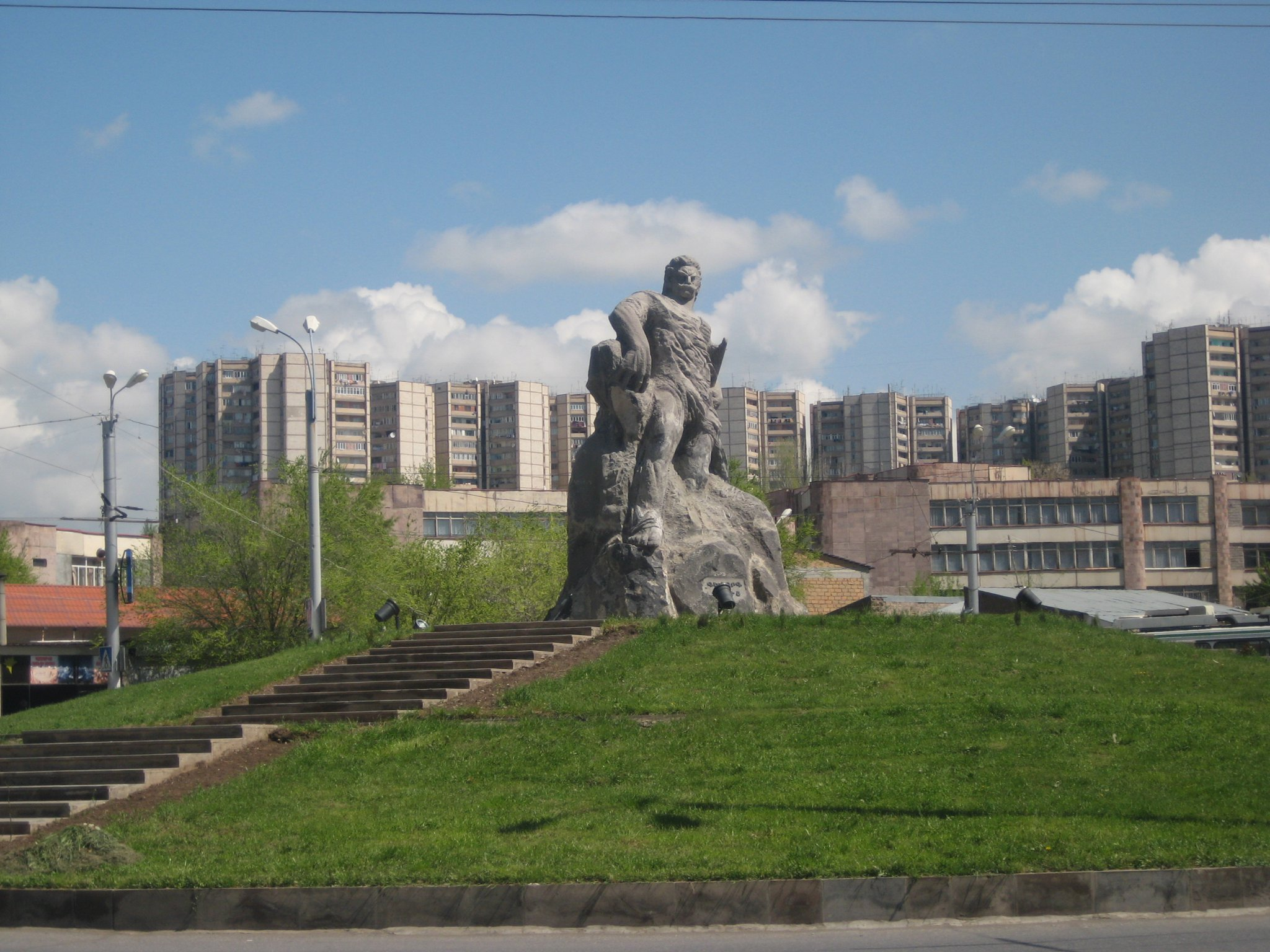 Ajapnyak district and the statue of Kevork Chavush, Yerevan, Armenia.